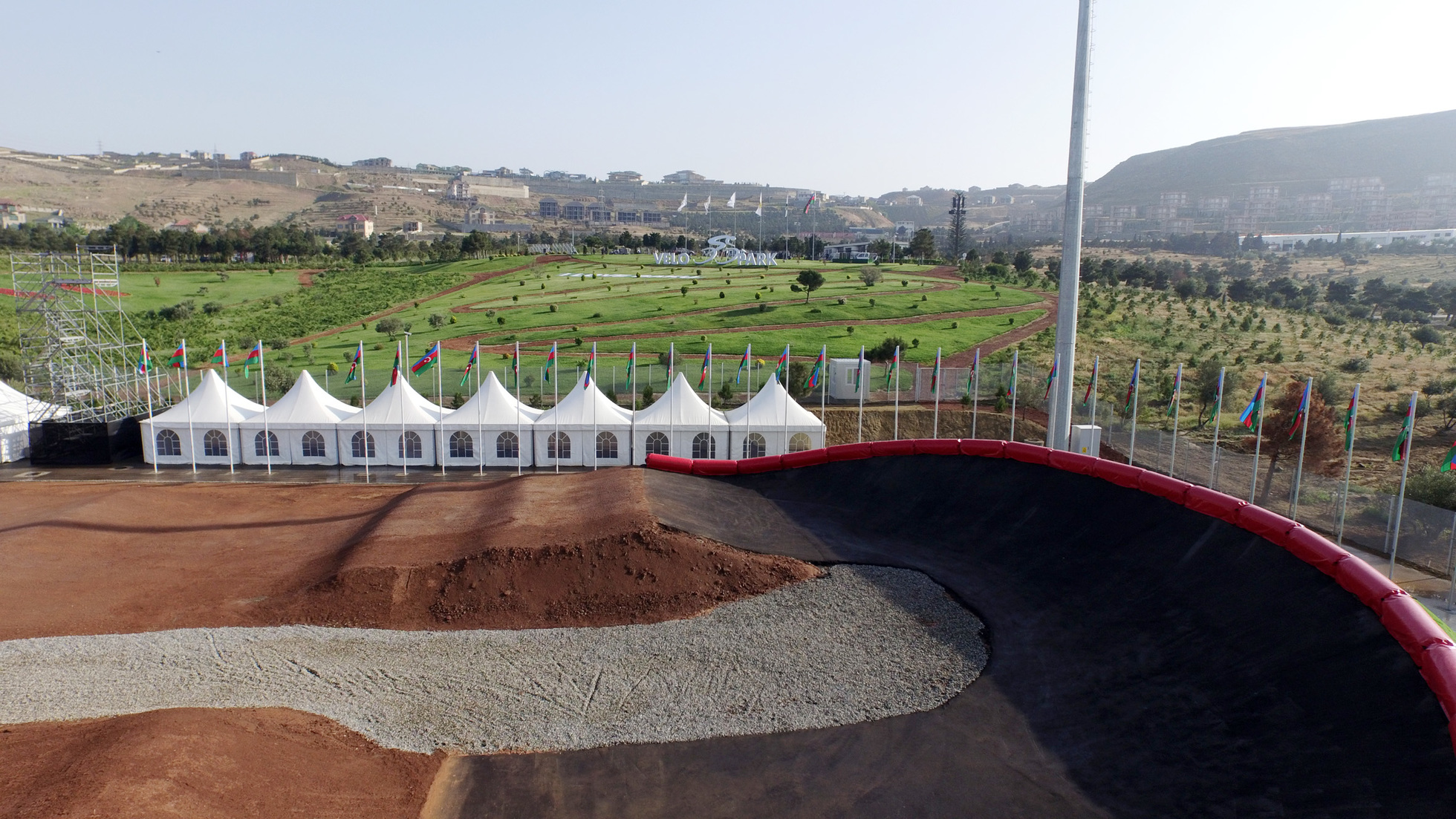 Opening of the Baku Bike Park